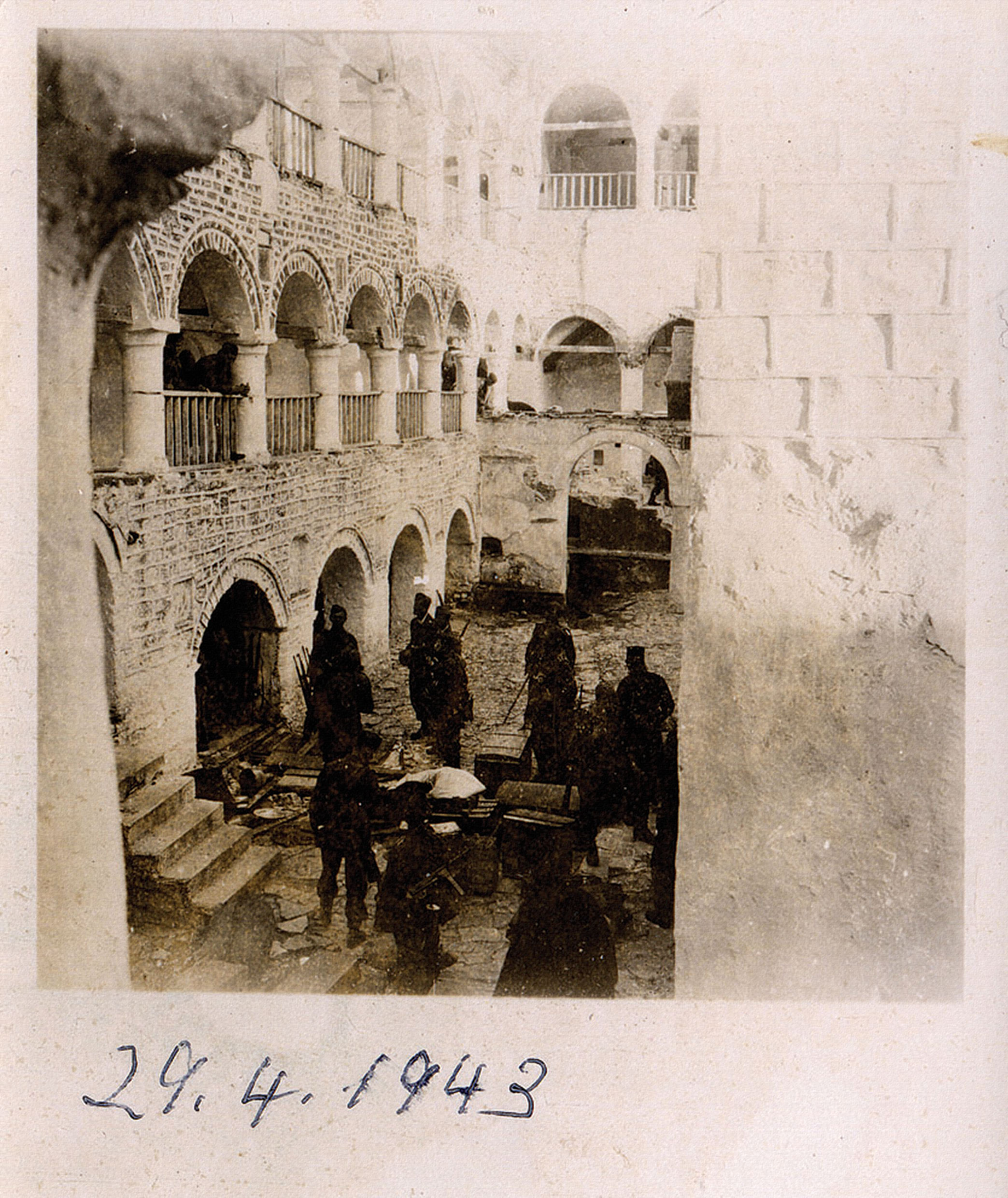 On the 29th of April, 1943 German troops shelled and then placed explosives in the Holy Monastery of Saint Dionysios on Mt. Olympos in order to demolish the 16th century monastery which they saw as a possible place of refuge for Greek soldiers. The German soldier Karl Faber secretly took this photo a long with a handful of others before the Monastery's destruction. He kept the photos hidden though the war and returned to German with the Wehrmacht left Greece. Many decades later he learned that the monks of the monastery had build a new monastery nearby and had opened a museum of their past. Karl sent the photos to the new monastery to hang in their museum where they can be found today.